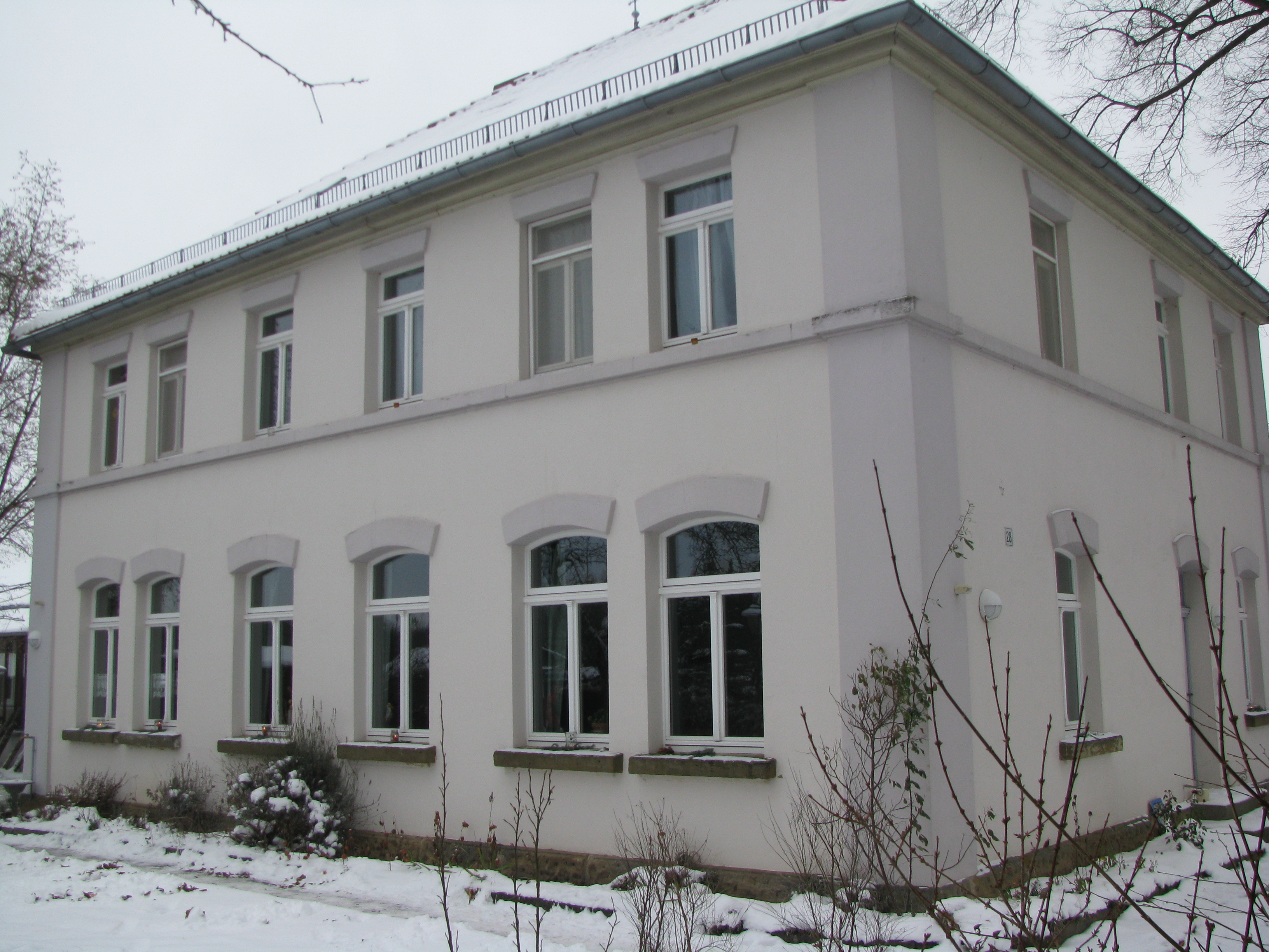 Old school Großbreitenbronn (near Merkendorf)